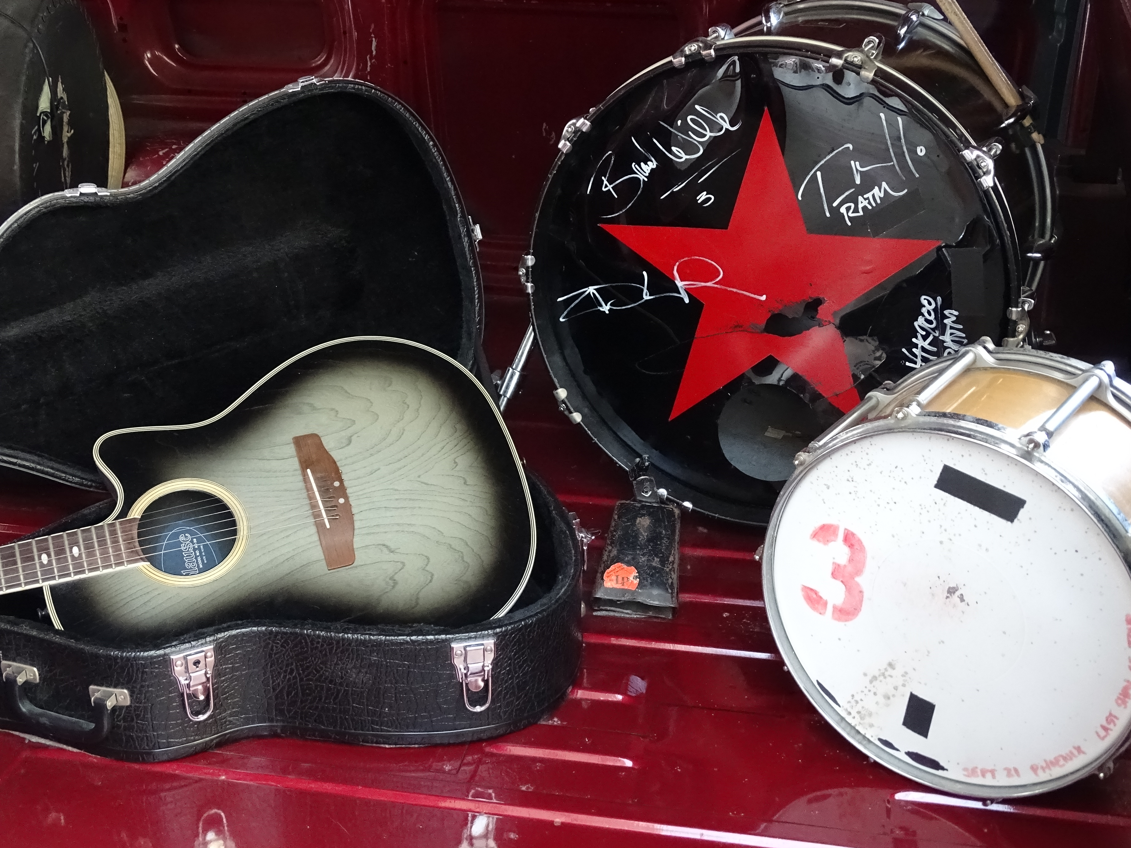 Interior of Rage Against the Machine Touring Van with Instruments - Rock & Roll Hall of Fame and Museum - Cleveland - Ohio - USA